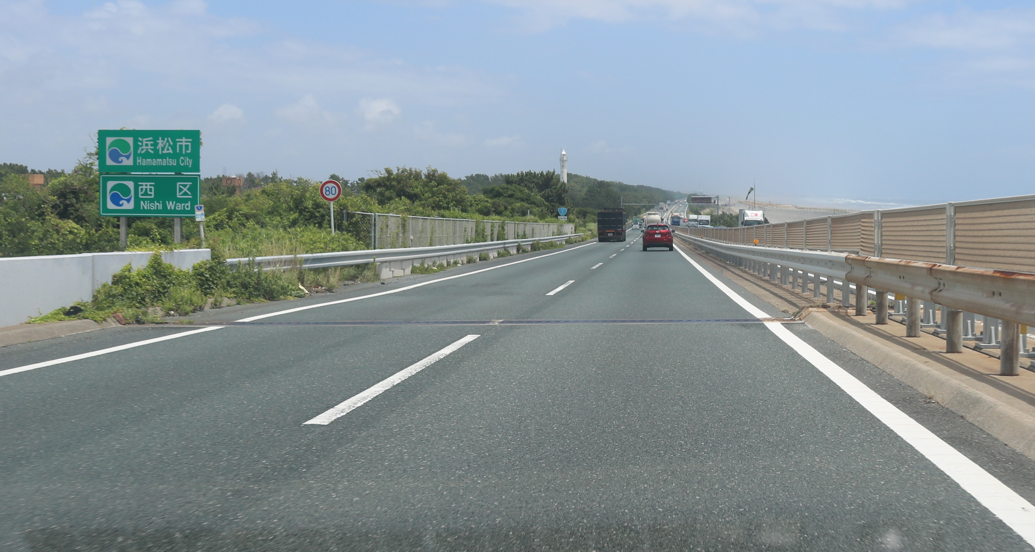 Hamana Bypass (Route 1) in Maisakacho, Nishi-ku, Hamamatsu, Shizuoka Prefecture, Japan.